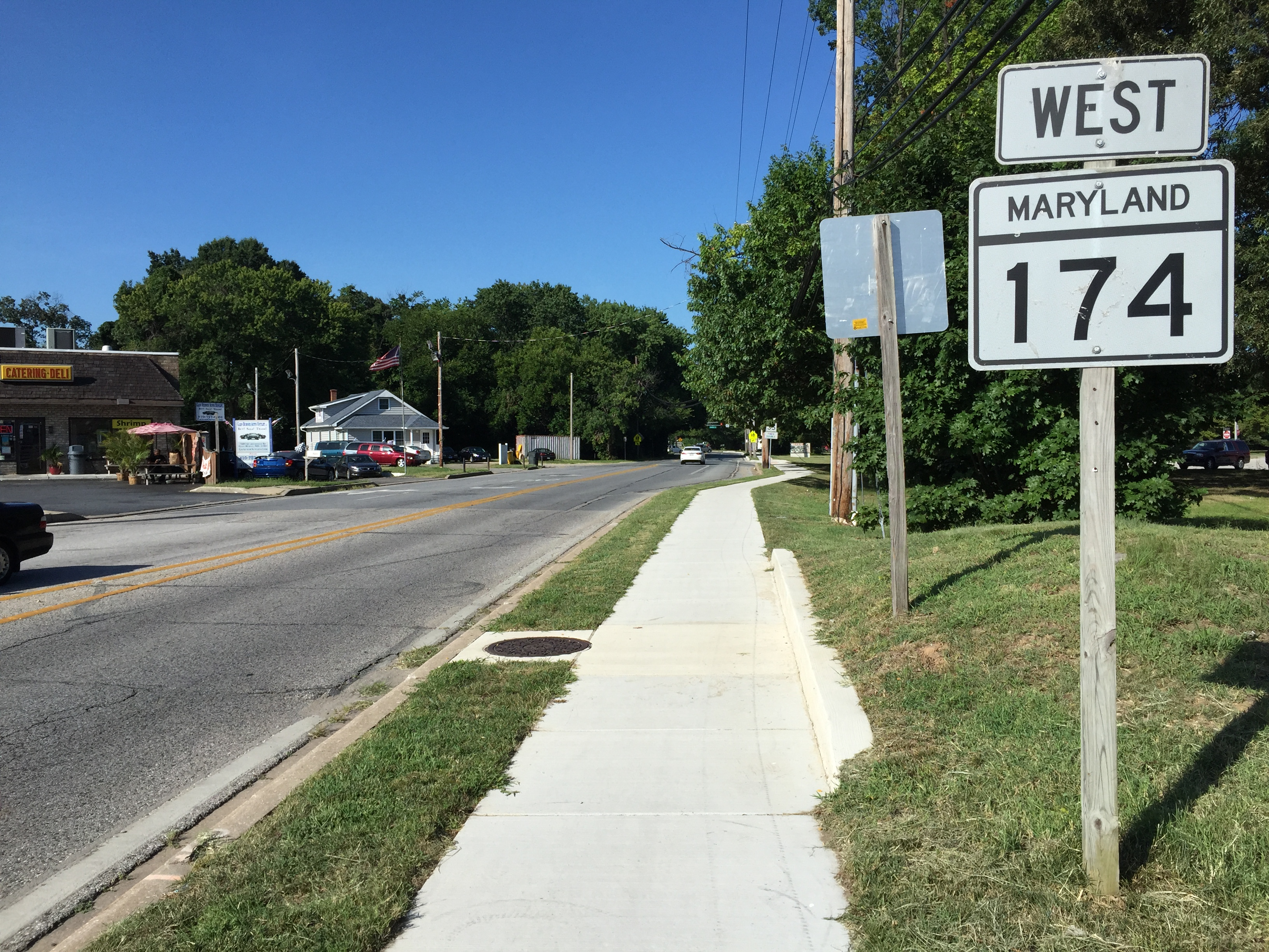 View west along Maryland State Route 174 (Quarterfield Road) at Maryland State Route 3 Business (Crain Highway) in Glen Burnie, Anne Arundel County, Maryland